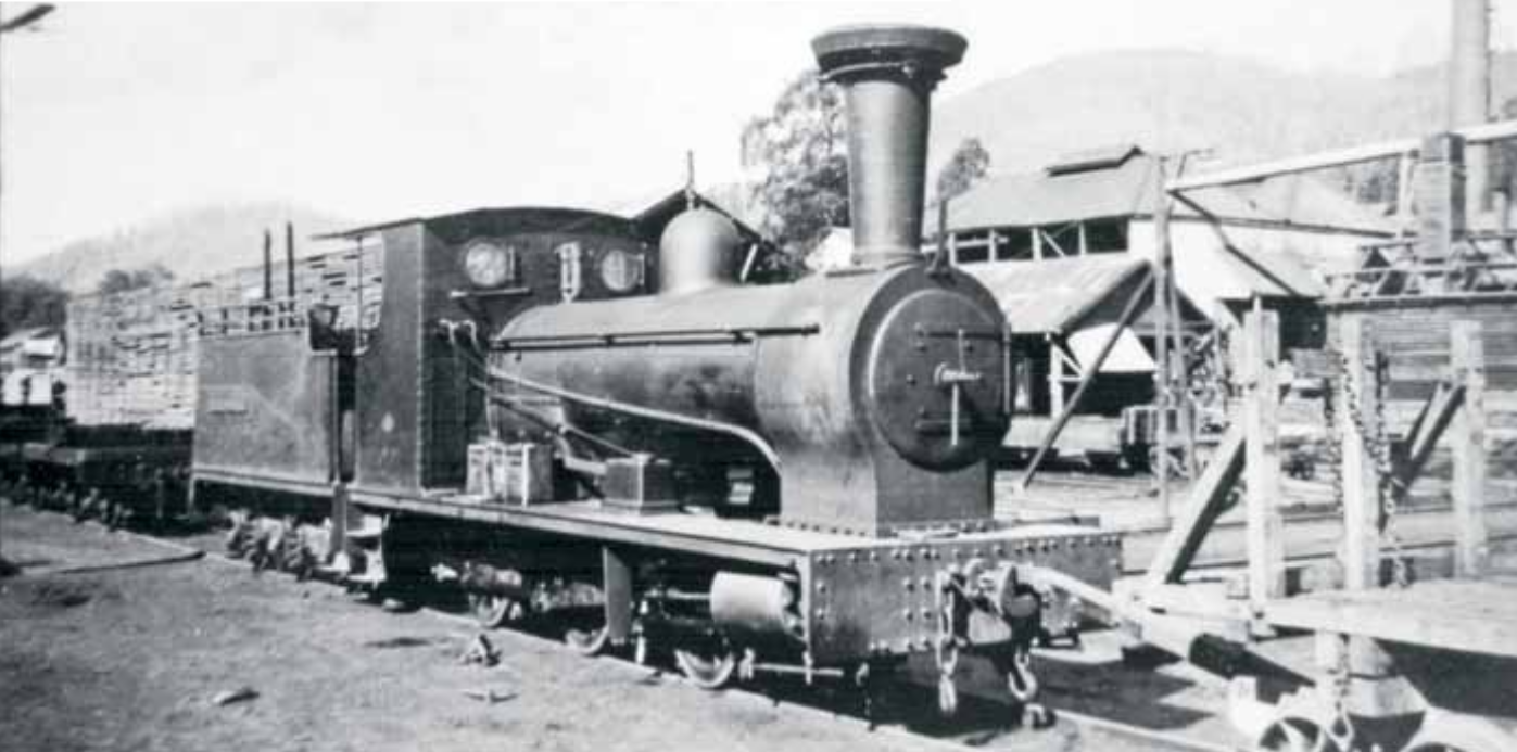 'Powellite' Bagnall 3ft gauge 0-6-0 (No. 1965 of 1913) at Powelltown c.1937 (Photo JCM Rolland) The oversized funnel was fitted in the late 1930s by the Victorian Railways when the loco was overhauled at Newport Workshops, and in this view the pancake shaped object on top appears to be a Cheney spark nullifier.